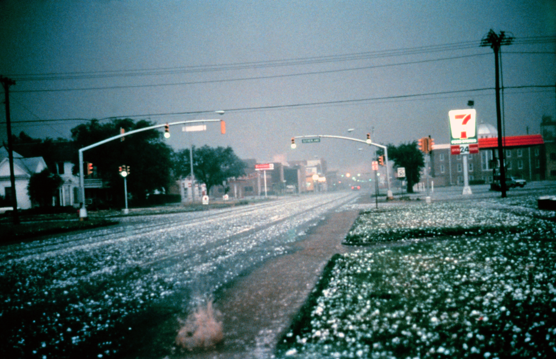 Large hail collects on streets and grass during severe thunderstorm. Larger stones appear to be nearly 2 to 3 inches in diameter.